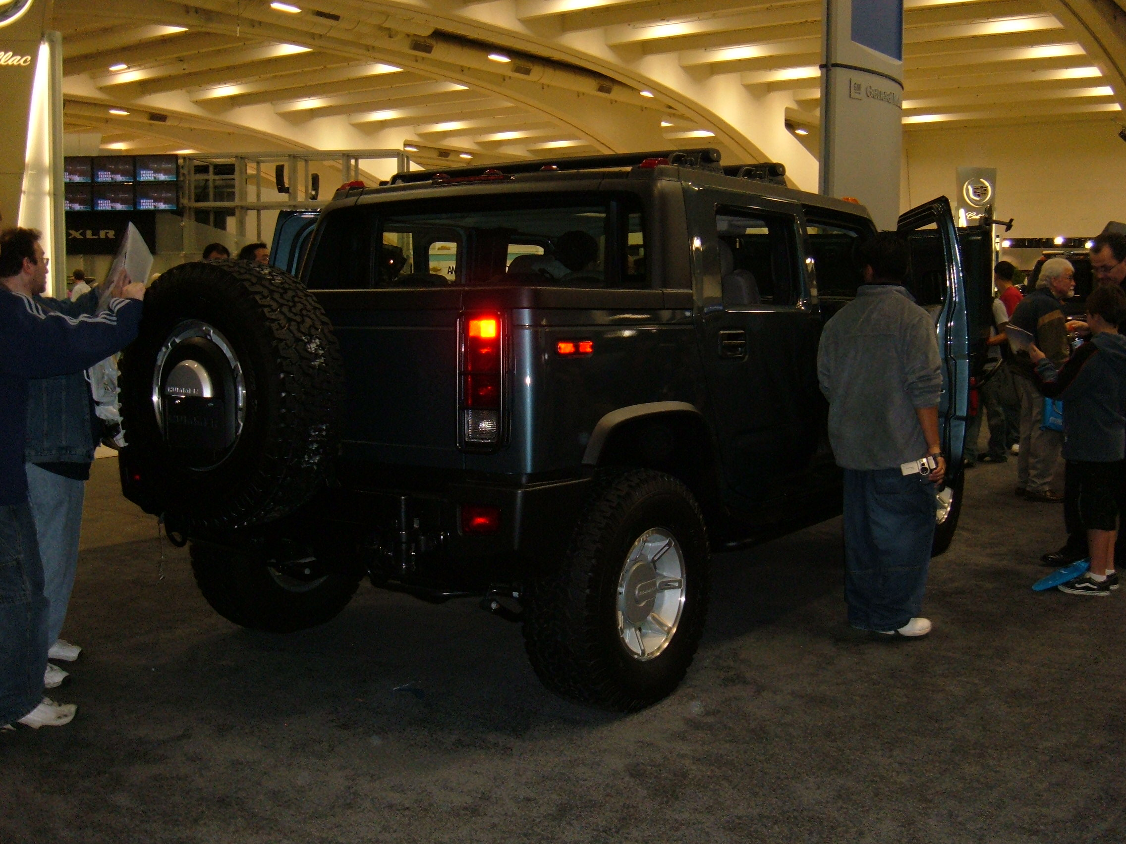 The rear of a 2005 Hummer H2 SUT at the 2004 San Francisco International Auto Show.